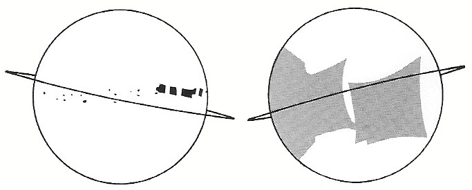 Part of Figure 1, Photographic Coverage showing spacecraft orbit and coverage on near side (left) and far side (right) of Lunar Orbiter 1.